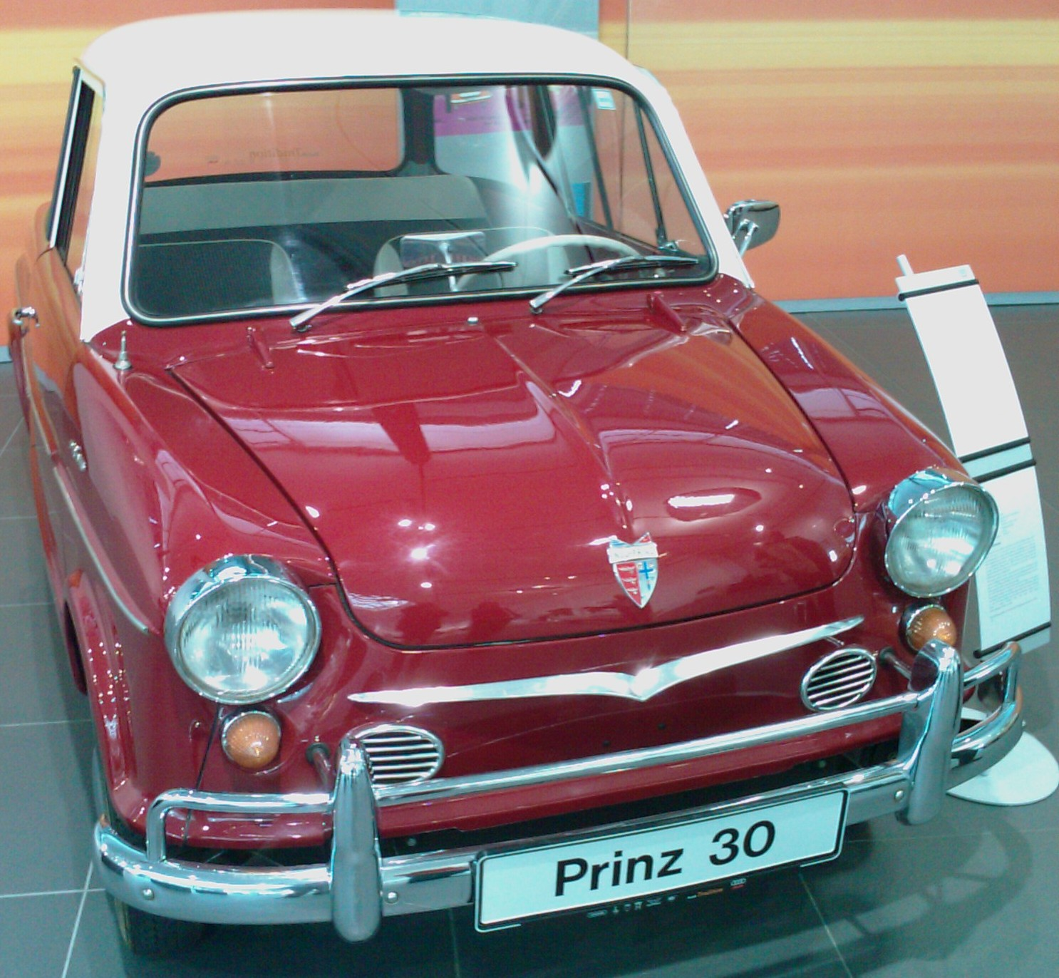 NSU Prinz 30 @ Audi Forum Neckarsulm